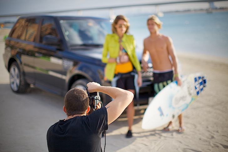 Harper's Bazaar Arabia Range Rover Sport